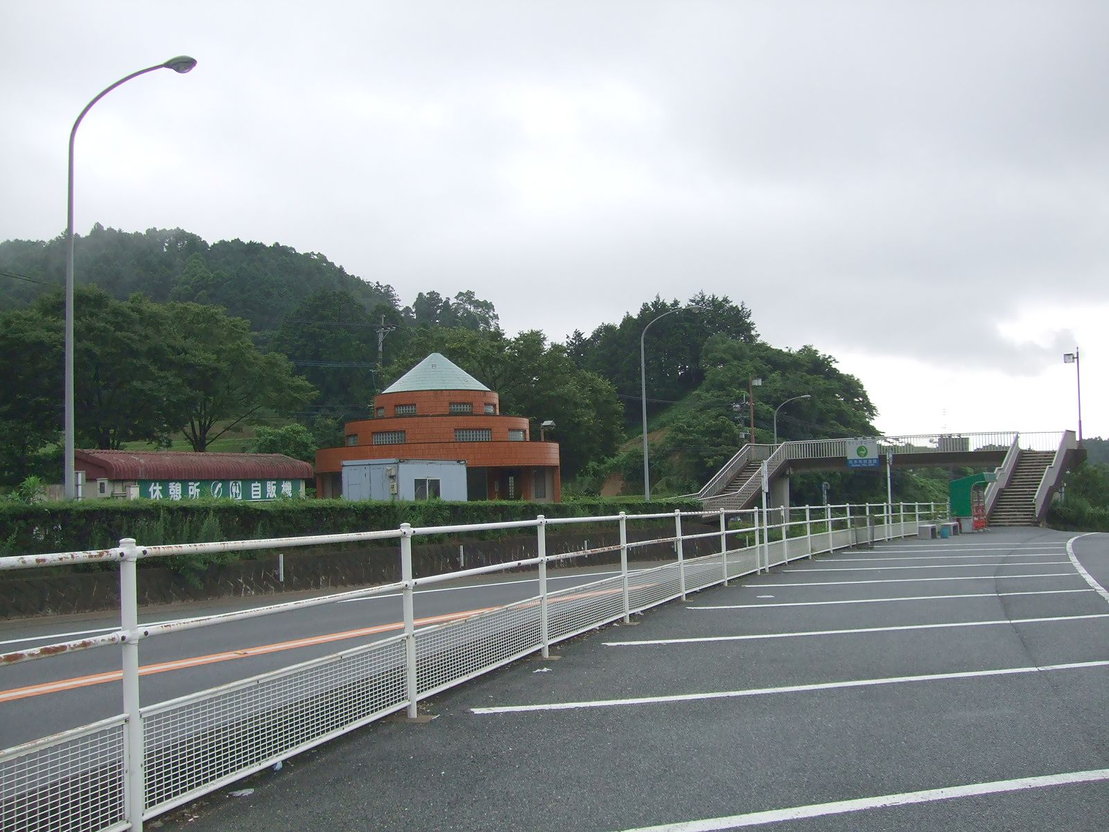 Rest area in Hiyamizu Toll Road